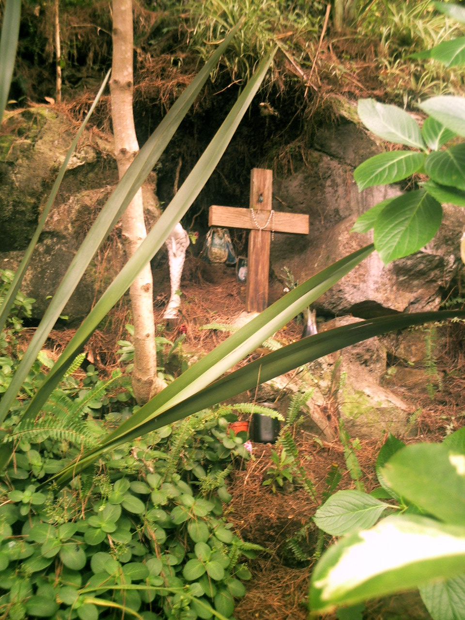 Pedros Cave - Christian Shrine